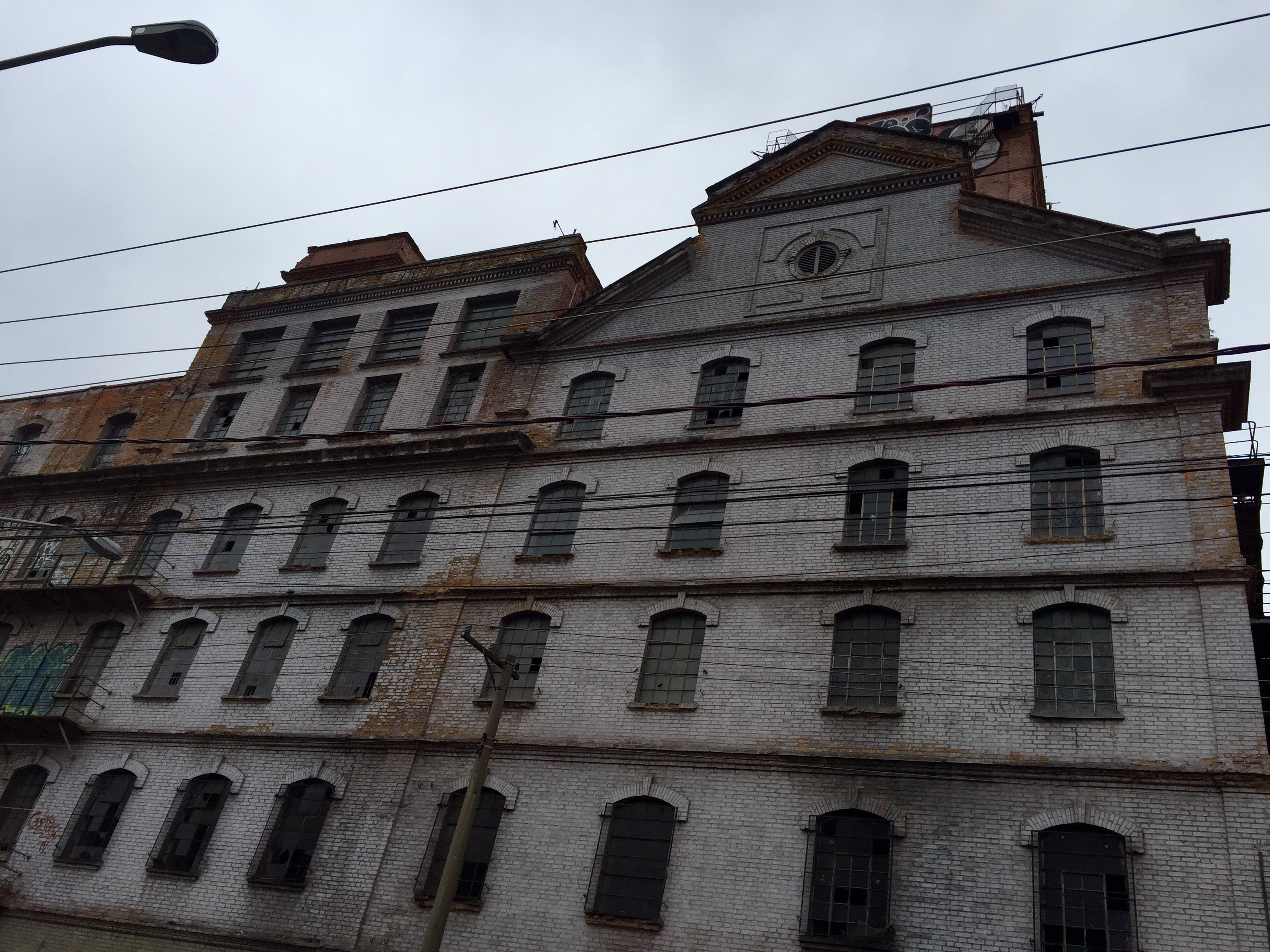 Matarazzo Mill west facade to Street Monsenhor Andrade, São Paulo, Brazil. Special detail of its windows.